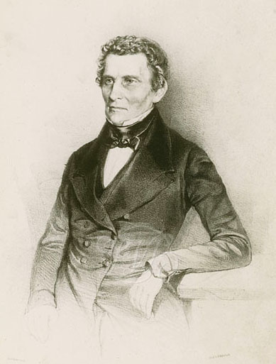 The portrait of Austrian clarinetist Joseph Friedlowsky (1777—1859)